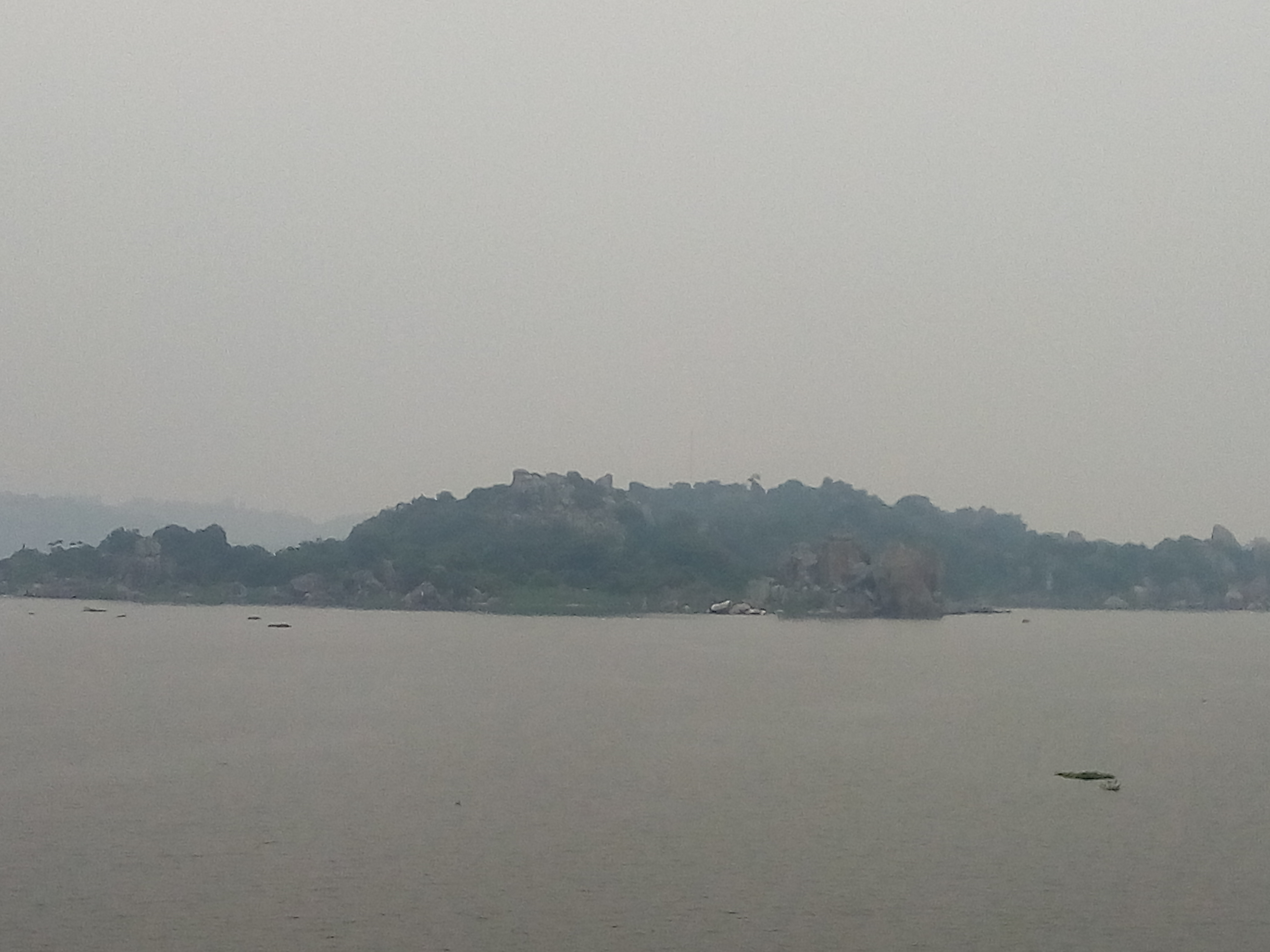 This is an image with the theme "Africa on the Move or Transport" from: Tanzania